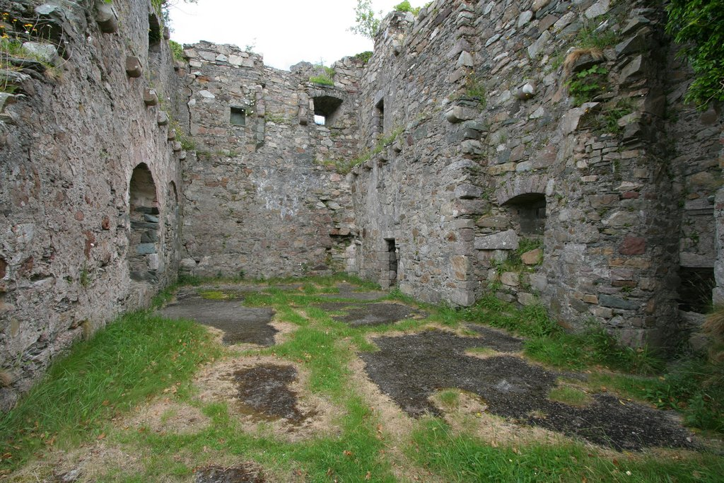 Upper level (west), Old Castle Lachlan. This is the upper level on the west side with views over Loch Fyne. To look through the window on the left: 853273